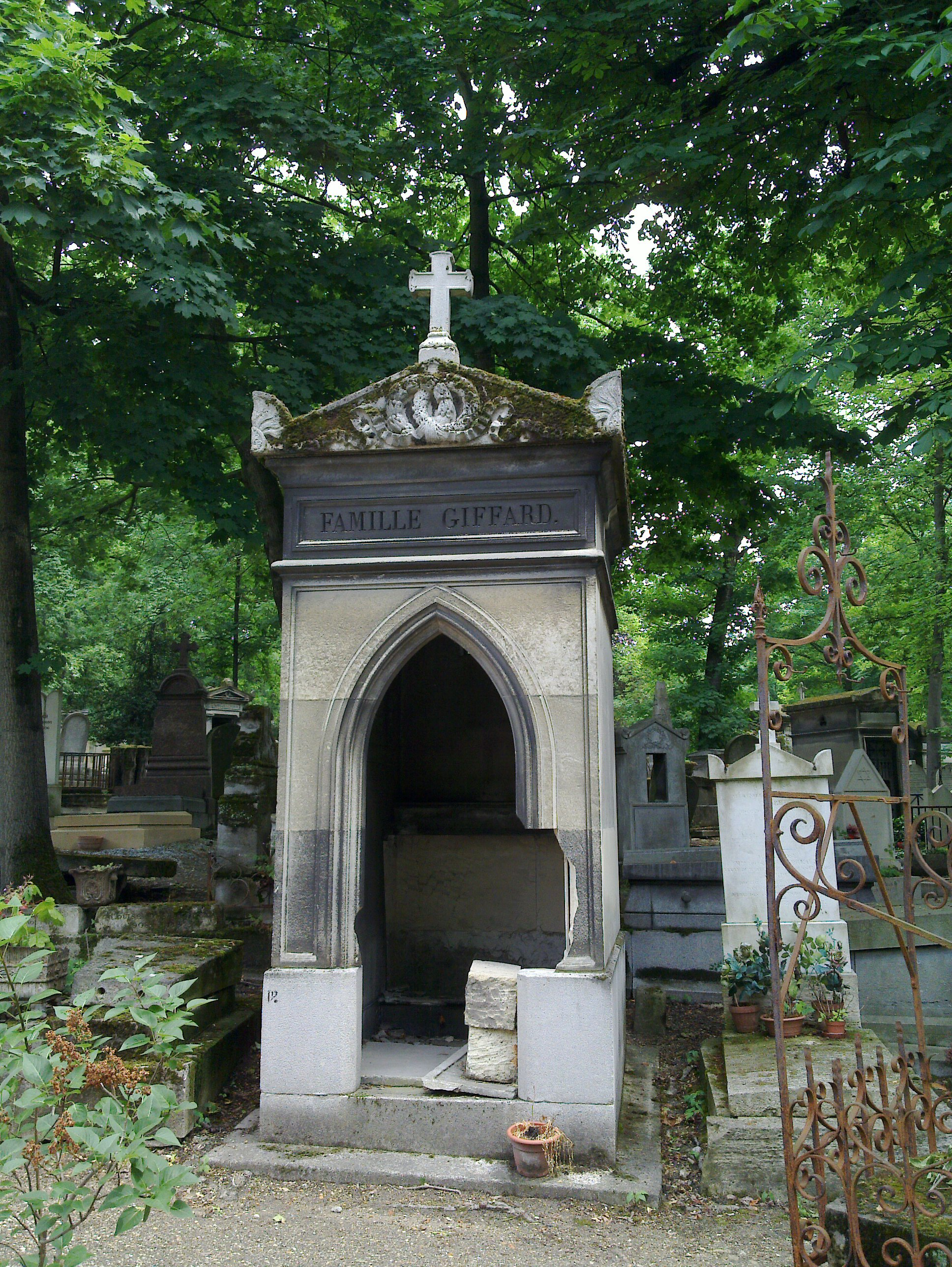 Henri Giffard's grave, Père Lachaise, Paris